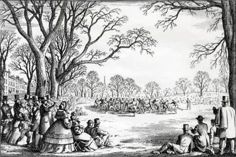 A game of the Oneida Football Club (considered the first football team in the US history) during its first year of existence.